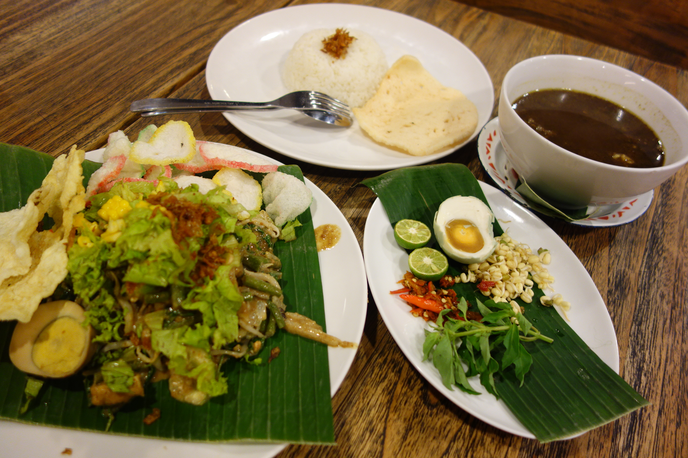 Traditional Javanese food: gado-gado vegetable salad, rawon beef soup with salted egg and condiments, plain rice